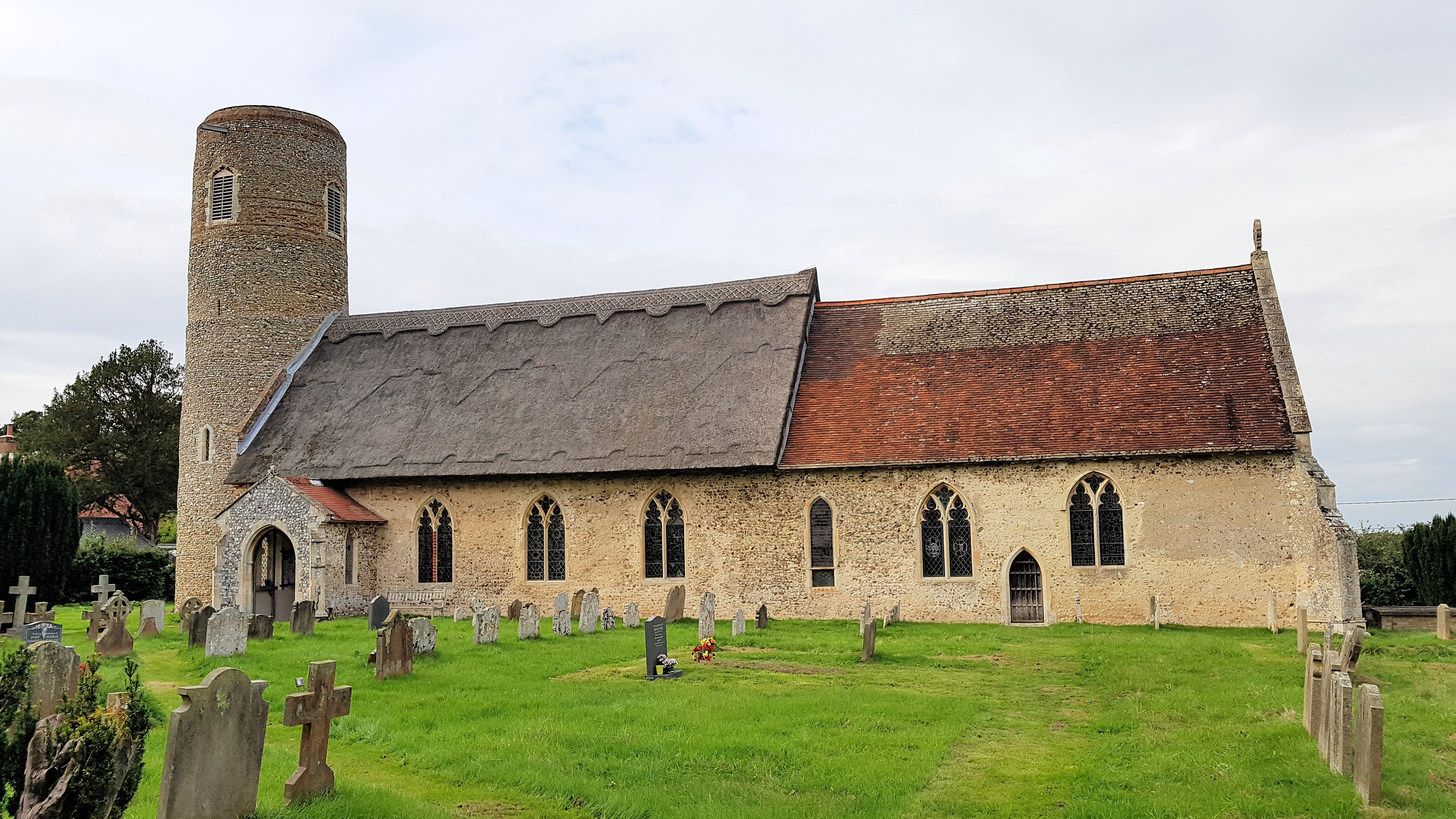 Most Holy Trinity church, Barsham